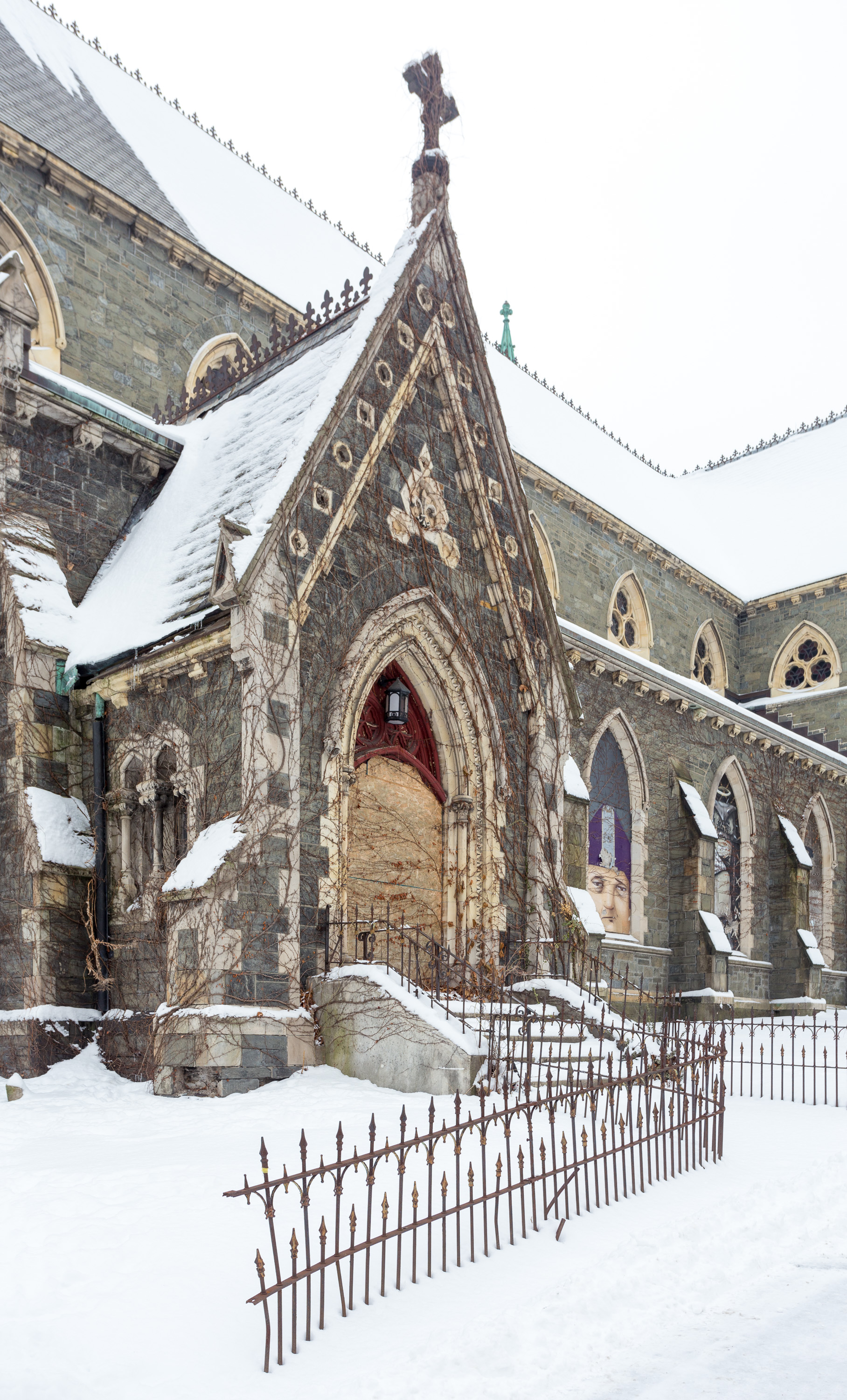 St. Joseph's Church is a historic Gothic church in the Ten Broeck Triangle section of Albany, New York's Arbor Hill neighborhood.